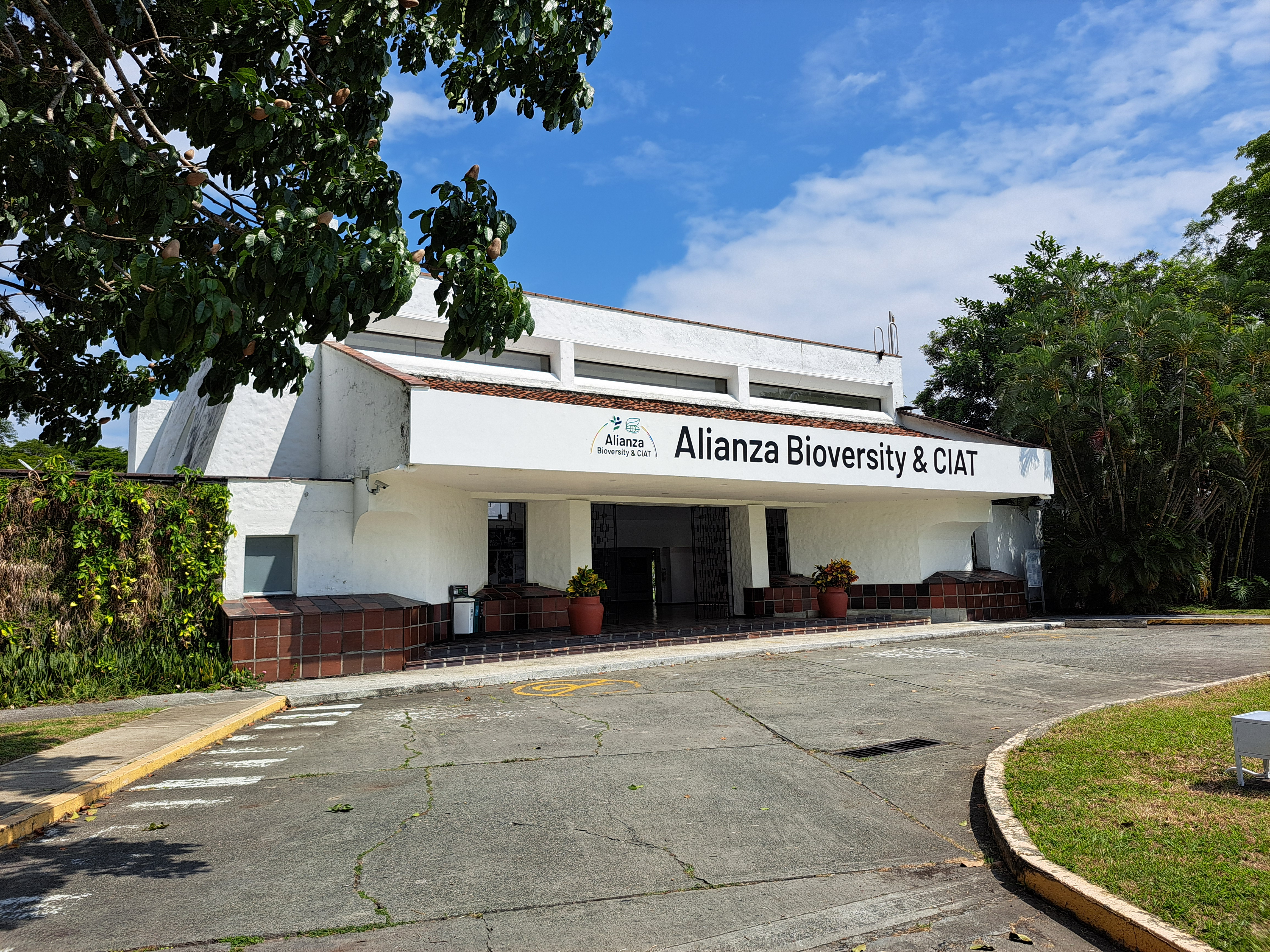 Facade of the International Center for Tropical Agriculture based in Palmira, Colombia